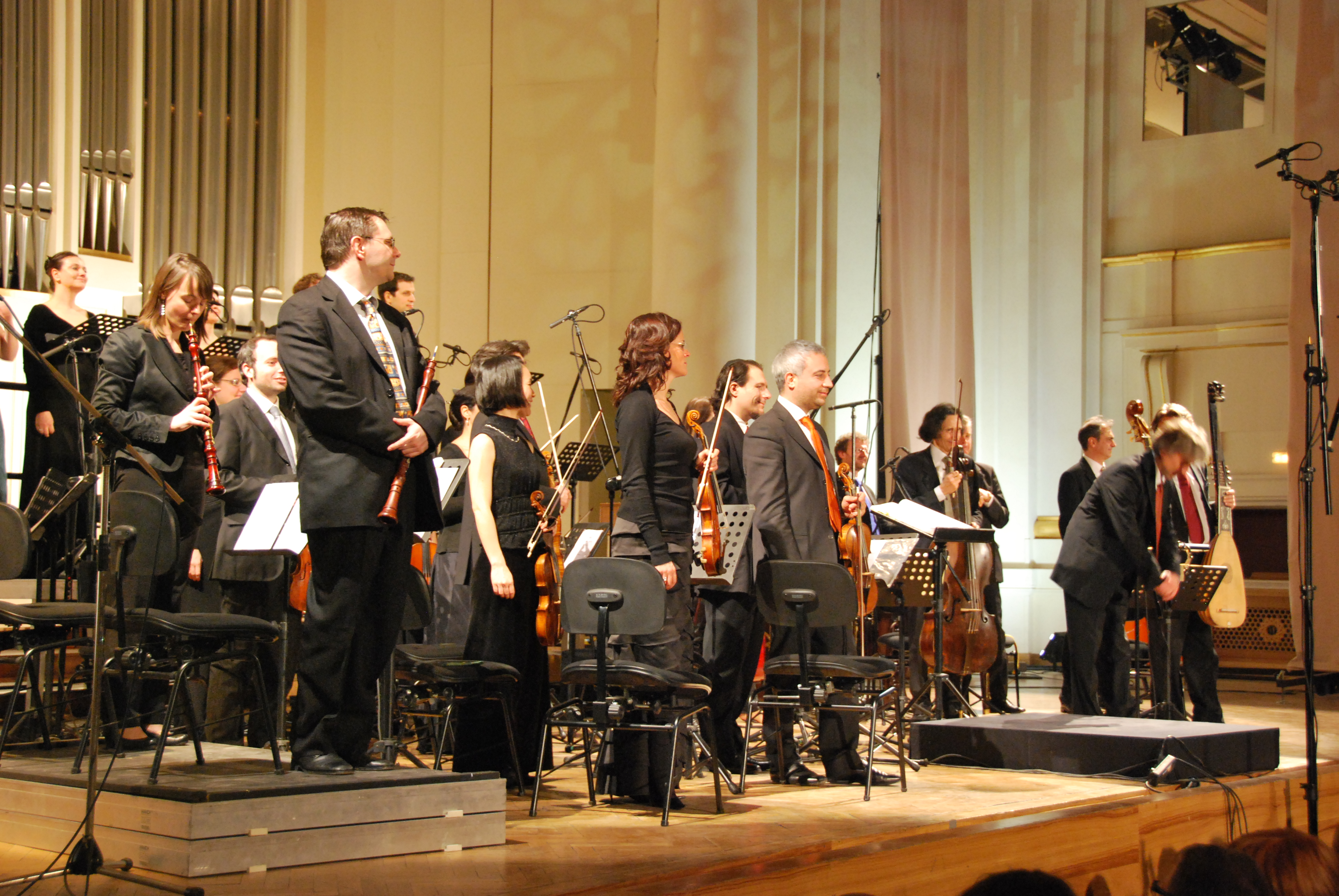 Il Giardino Armonico, Misteria Paschalia Festival, Kraków Philharmonic, 04.04.2010.